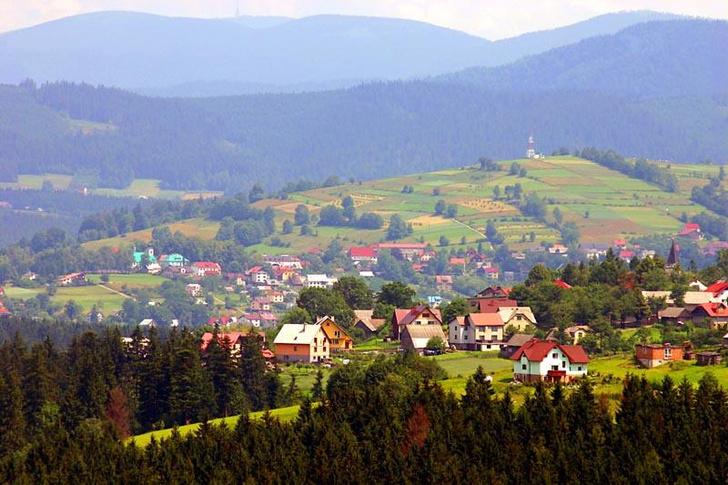 View from Jaworzynka to Istebna and Złoty Groń